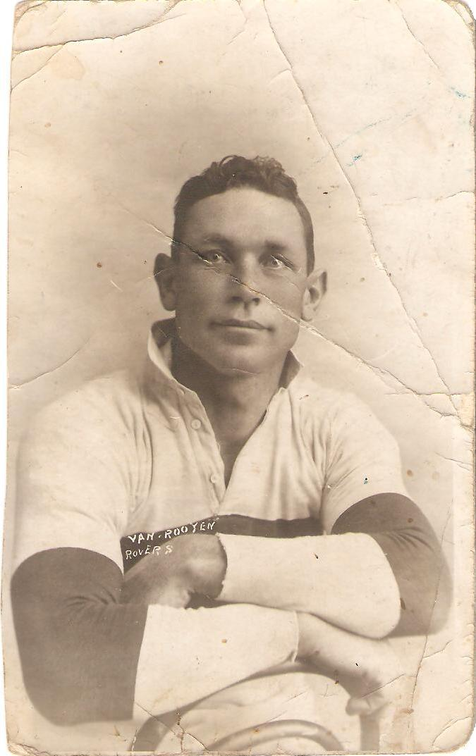 Bona fide photo card of Gert (aka George) Wilhelm "Tank" van Rooyen (1892–1942) when he was playing rugby league for Hull Kingston Rovers, England.